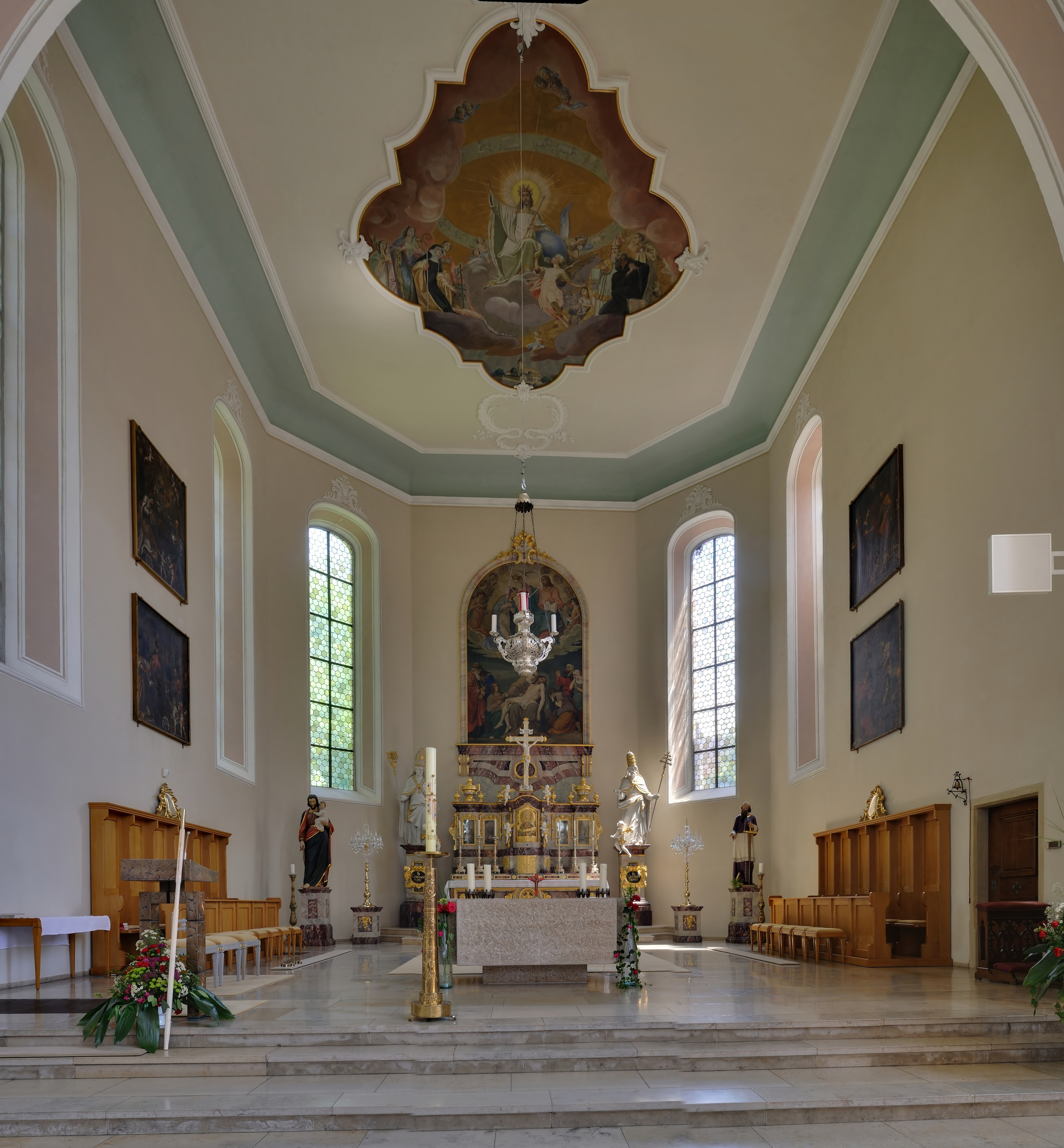 Schliengen: Saint Leodegar Church